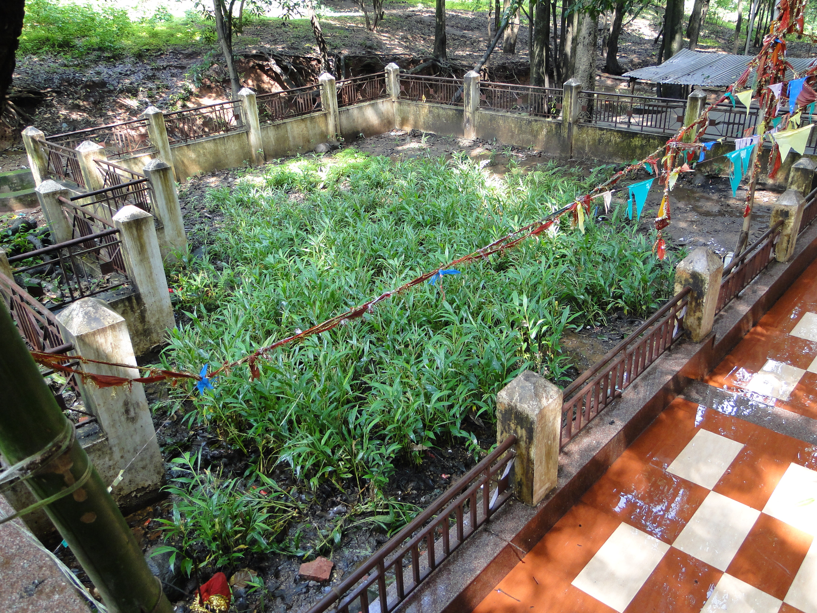 Gulbakawali Plants at Mai Ki Bagiya, Amarkantak, India